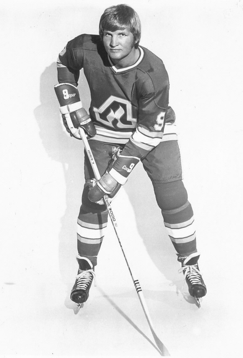 Photo of Keith McCreary as a member of the Atlanta Flames.